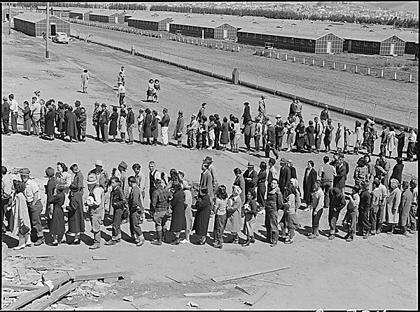 San Bruno, California. This assembly center has been open for two days. Bus-load after bus-load of evacuated persons of Japanese ancestry are arriving on this day after going through the necessary procedures, they are guided to the quarters assigned to them in the barracks. Only one mess hall was operating today. Photograph shows line-up of newly arrived evacuees outside this mess hall at noon. Note barracks in background, just built, for family units. There are three types of quarters in the center of post office. The wide road which runs diagonally across the photograph is the former racetrack.